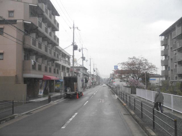 Otsukadai5 Nishi-ku Kobecity Hyogopref